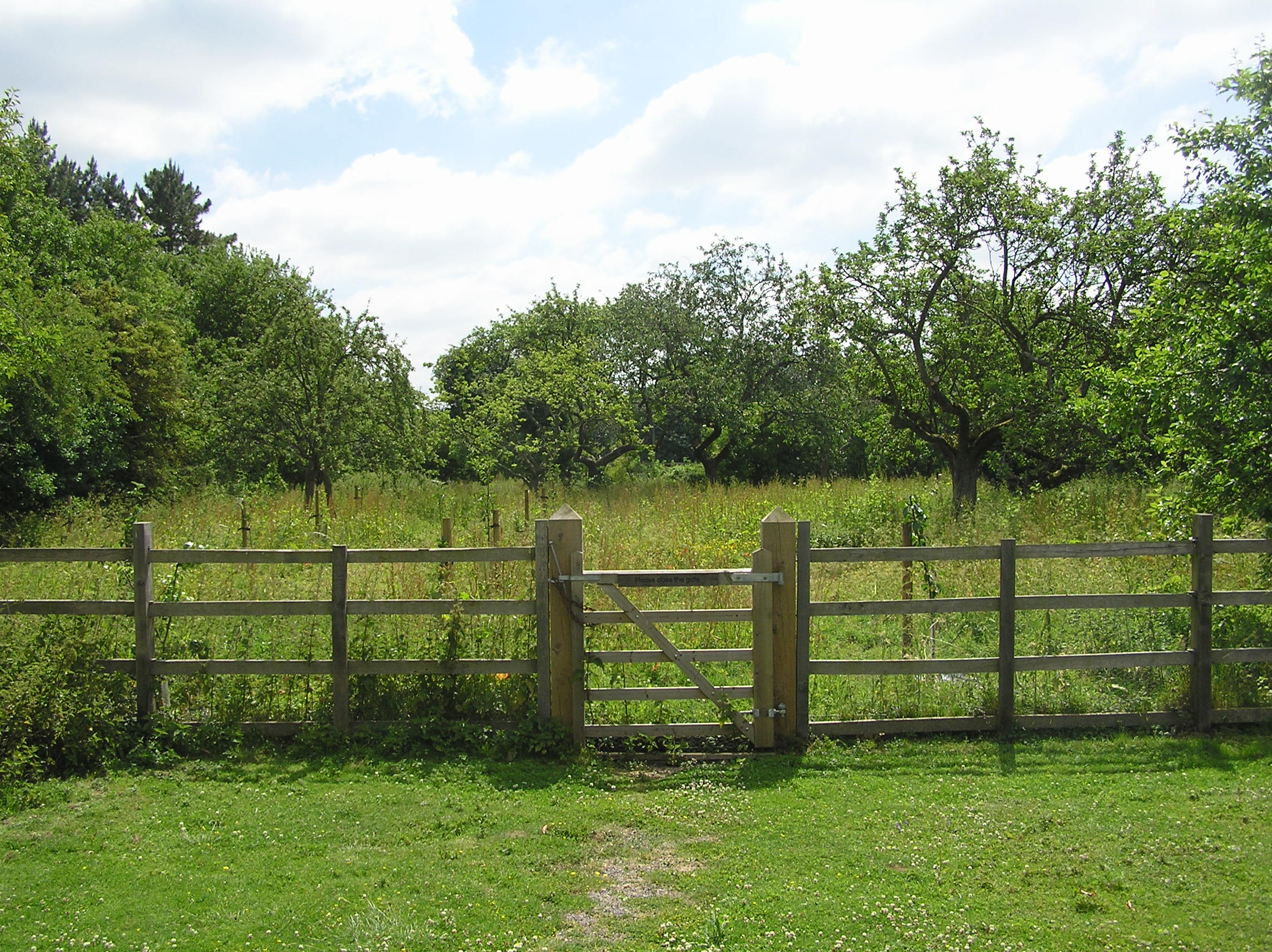 Top Lodge - The Fineshade Community Orchard